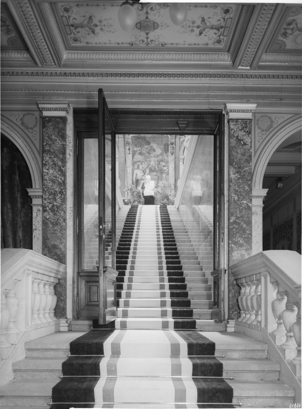 Treppenhaus: Aufblick.